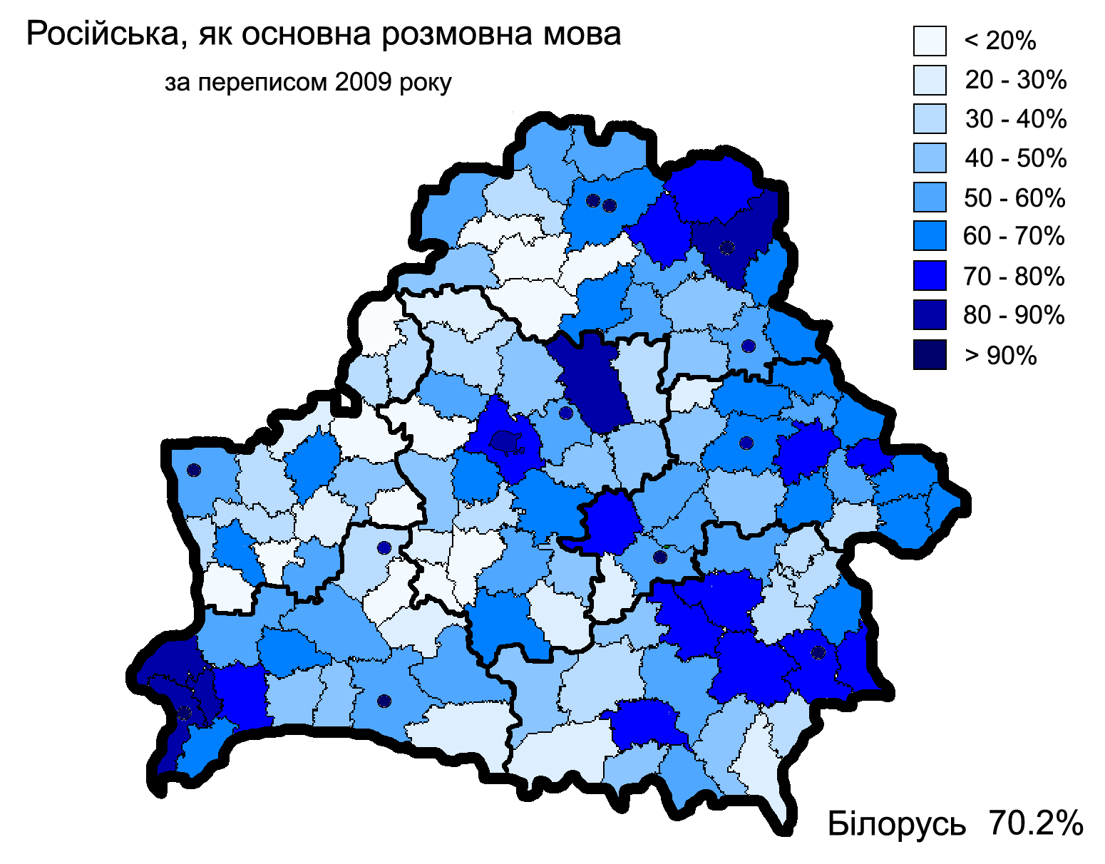 Russian as a "language spoken at home" according to the 2009 Belarus Census